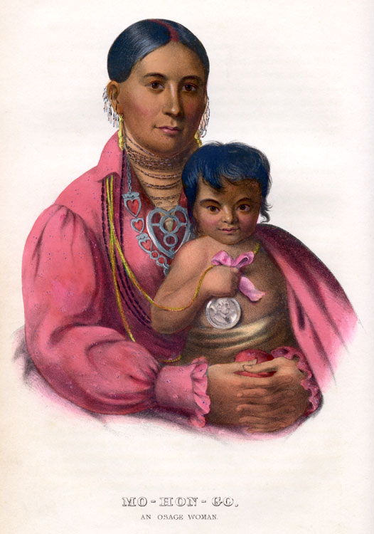 From the University of California McKenney-Hall Collection This digital collection at the University of Washington features the text and hand-colored lithographs from The History of the Indian Tribes of North America by Thomas L. McKenney and James Hall published 1870. digital exhibit: [1] Book: [2] Identified as Sacred Sun and her child by the State Historical Society of Missouri: [3]